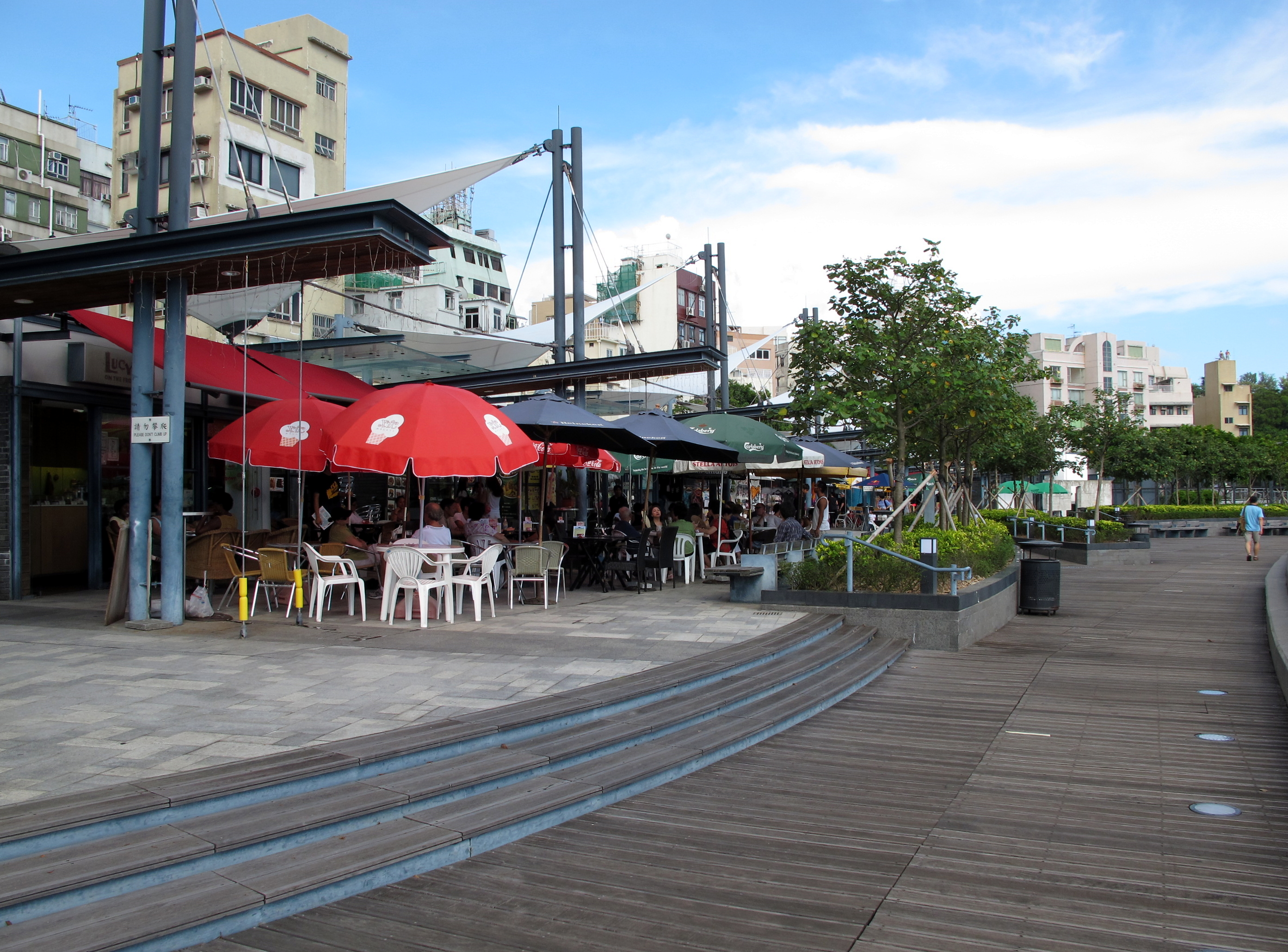 Stanley Waterfront 赤柱海濱長廊